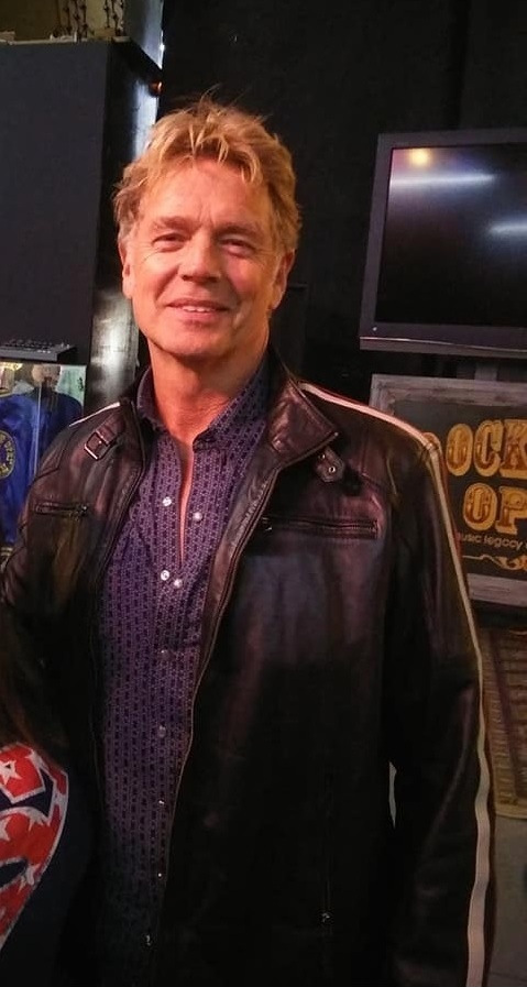 John Schneider at a meet and greet in Rockwood, TN 10-12-19